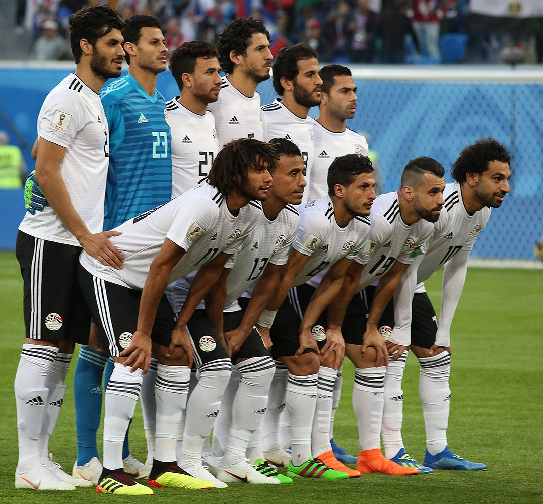 Egypt national football team